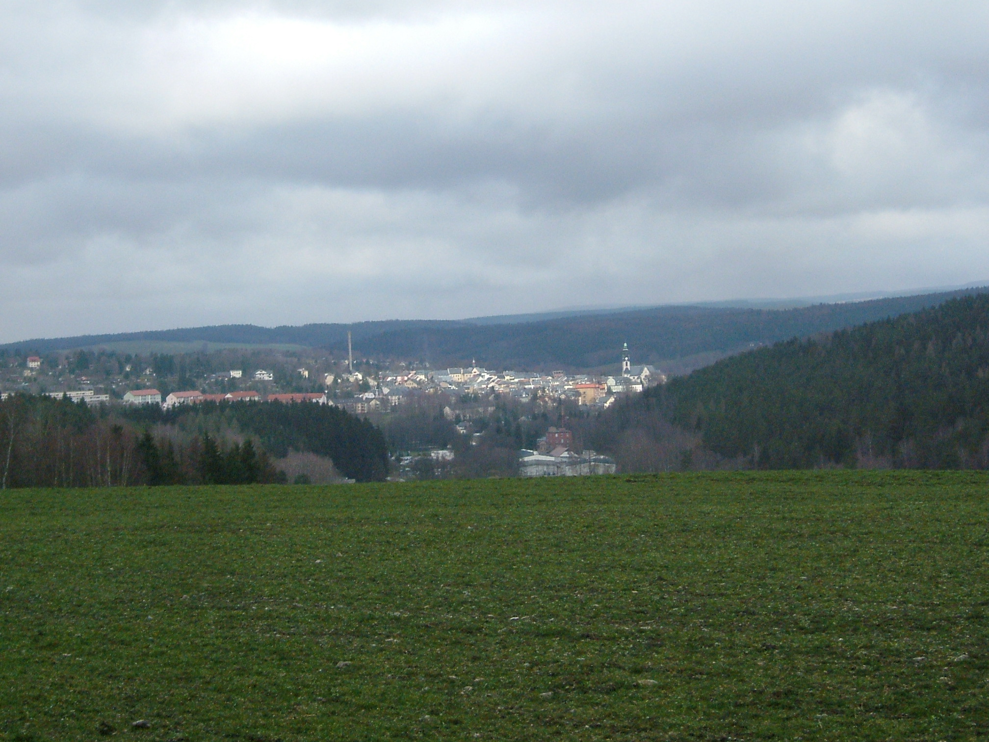 Adorf, in April 2008. Seen from the hills above Bad Elster station.